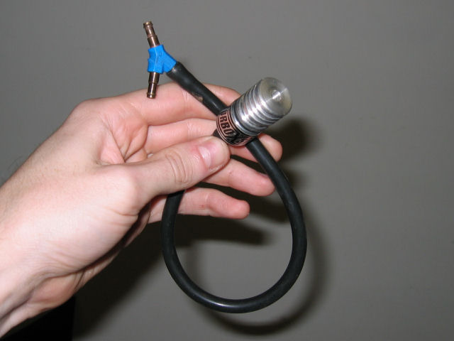 Example manual boost controller from TurboXS.